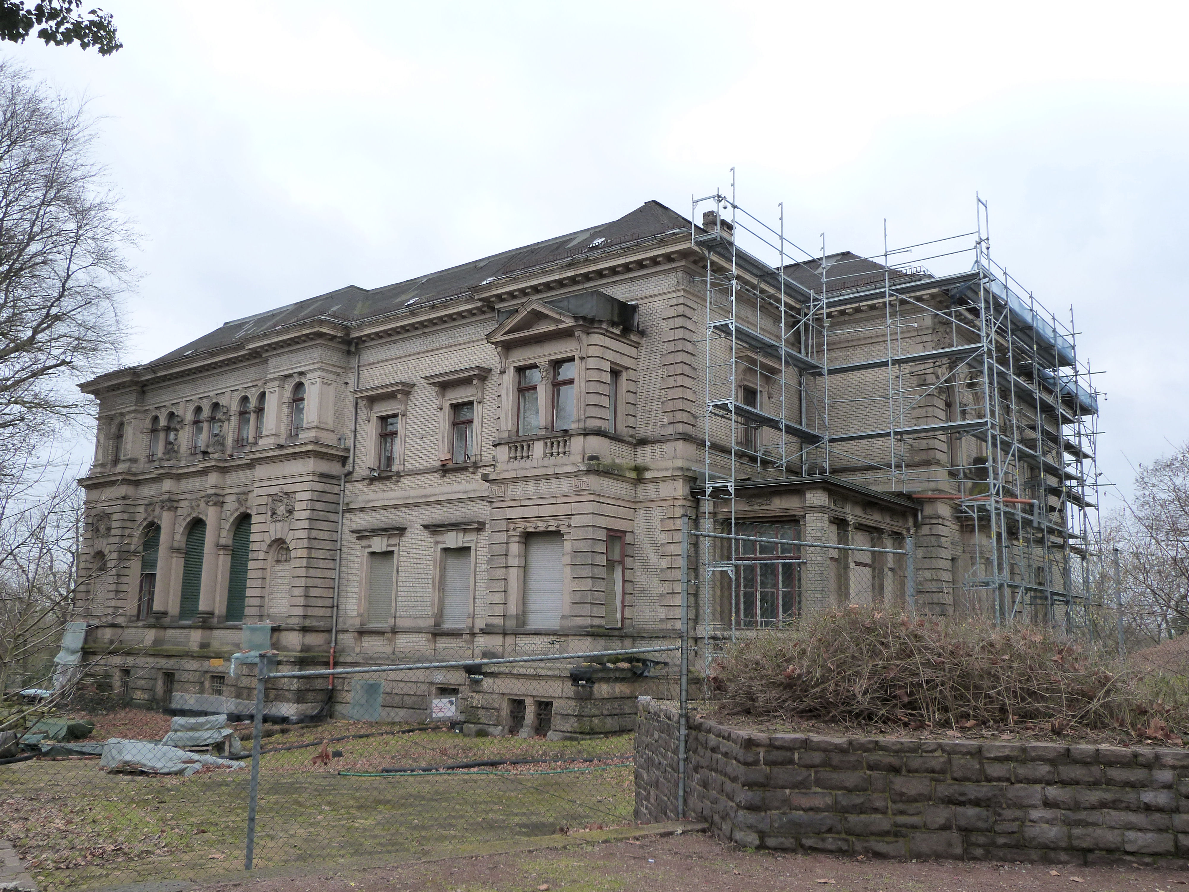 Lehmann Villa, Burgstrasse No. 46, halle (Saale)